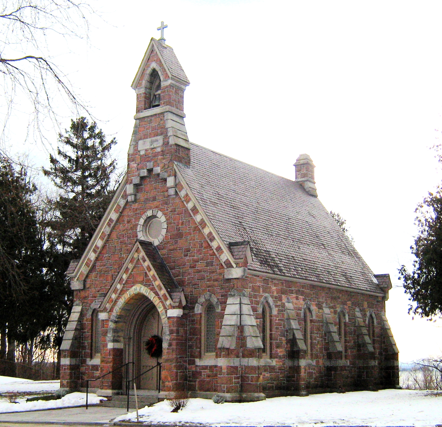 Built in 1882, the Chapel was a gift to the City of Burlington from Hannah Louisa Howard (1808-1886), a local philanthropist. A native of the city, she was the daughter of John Howard, a successful Burlington hotelkeeper.